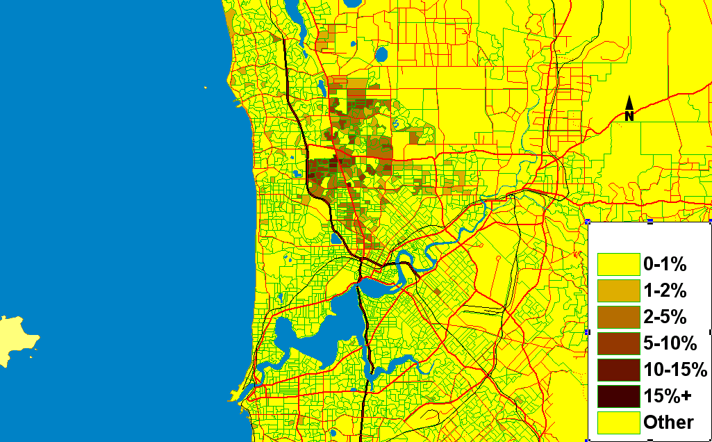 Proportion of persons who speak Macedonian at home out of total population in each Census District in Perth, 2006 Census